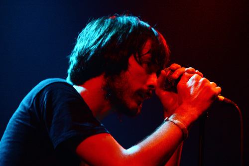 Singer of Spanish band Vetusta Morla